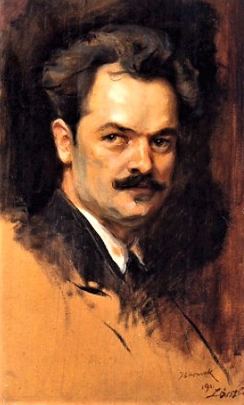 Portrait of Hungarian sculptor János Fadrusz taken c.1880s. Source:Hungarian art museum archives- public domain.